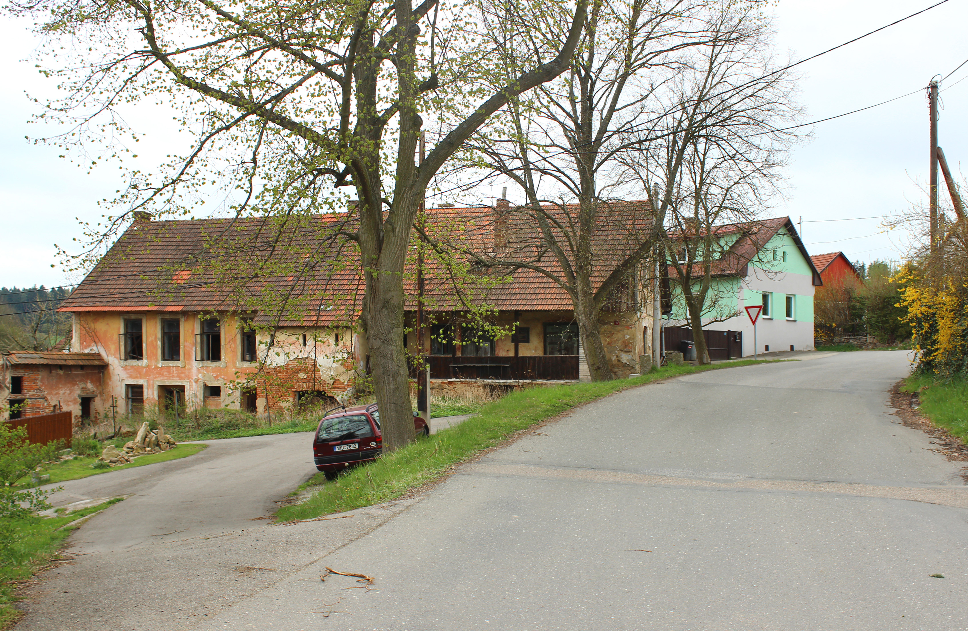 Lower part of Mžižovice, part of Ostředek village, Czech Republic